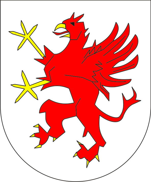 coats of arms of the duchy of Pommerania